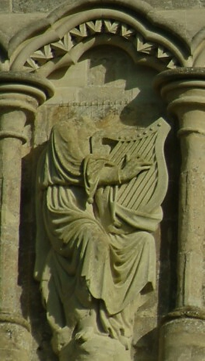 Relief of an angel in niche 14 on the Great West Front of Salisbury Cathedral.